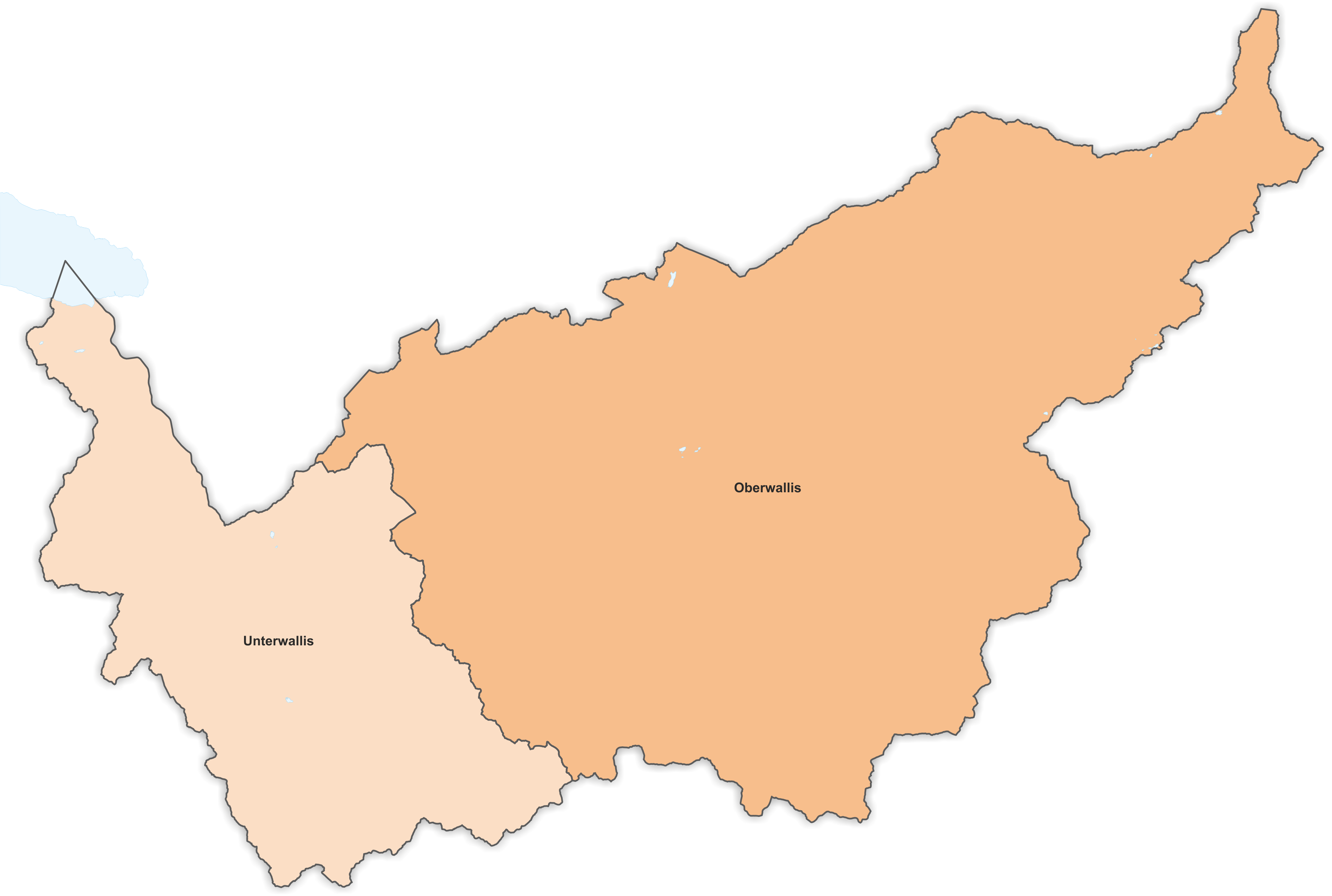 National council constituencies in the canton of Valais from 1902 to 1917